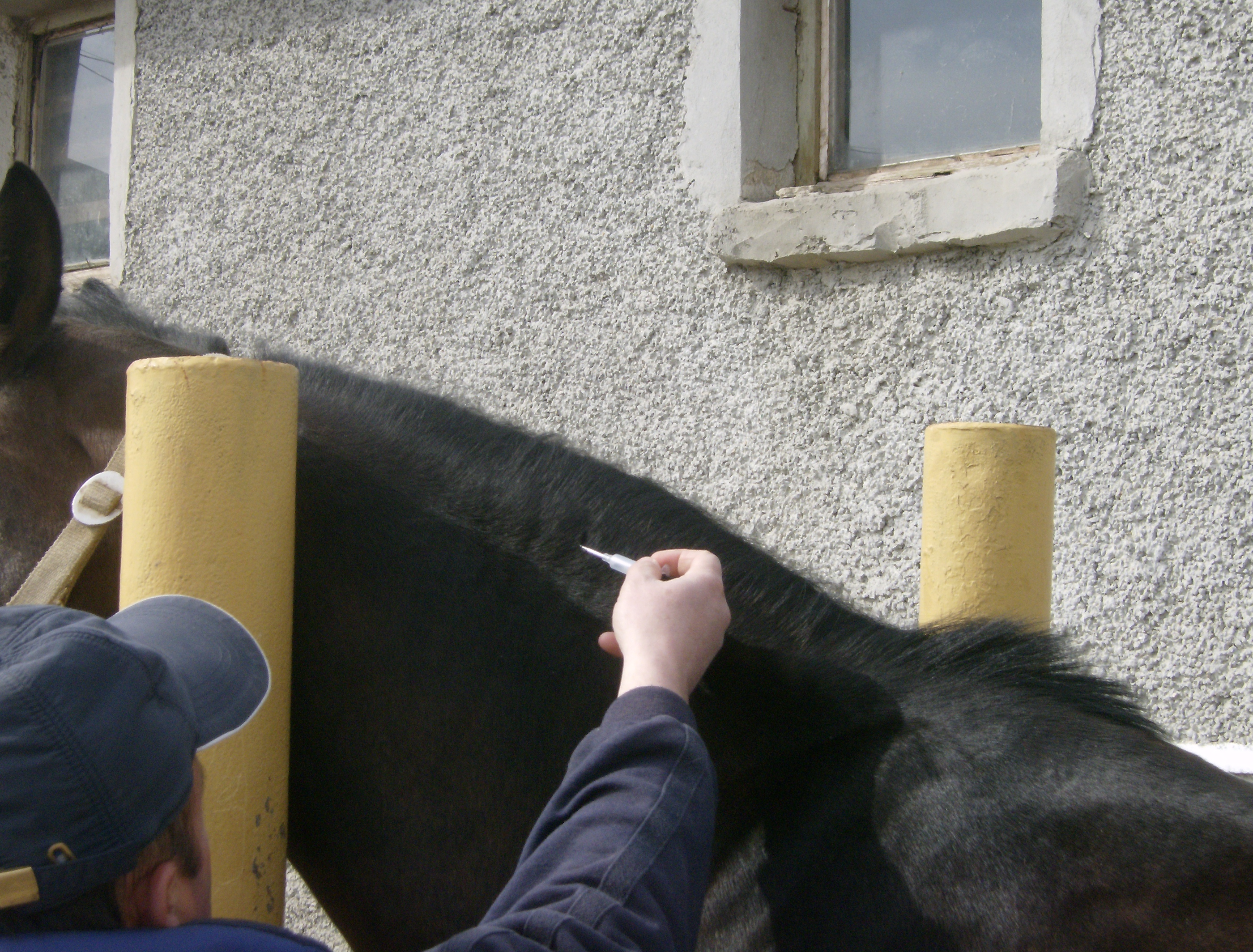 Horse microchipping